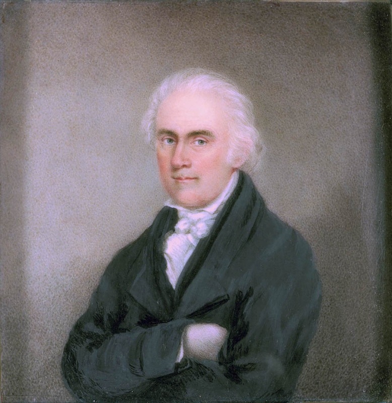 Slave trader and a U.S. Senator from Rhode Island.